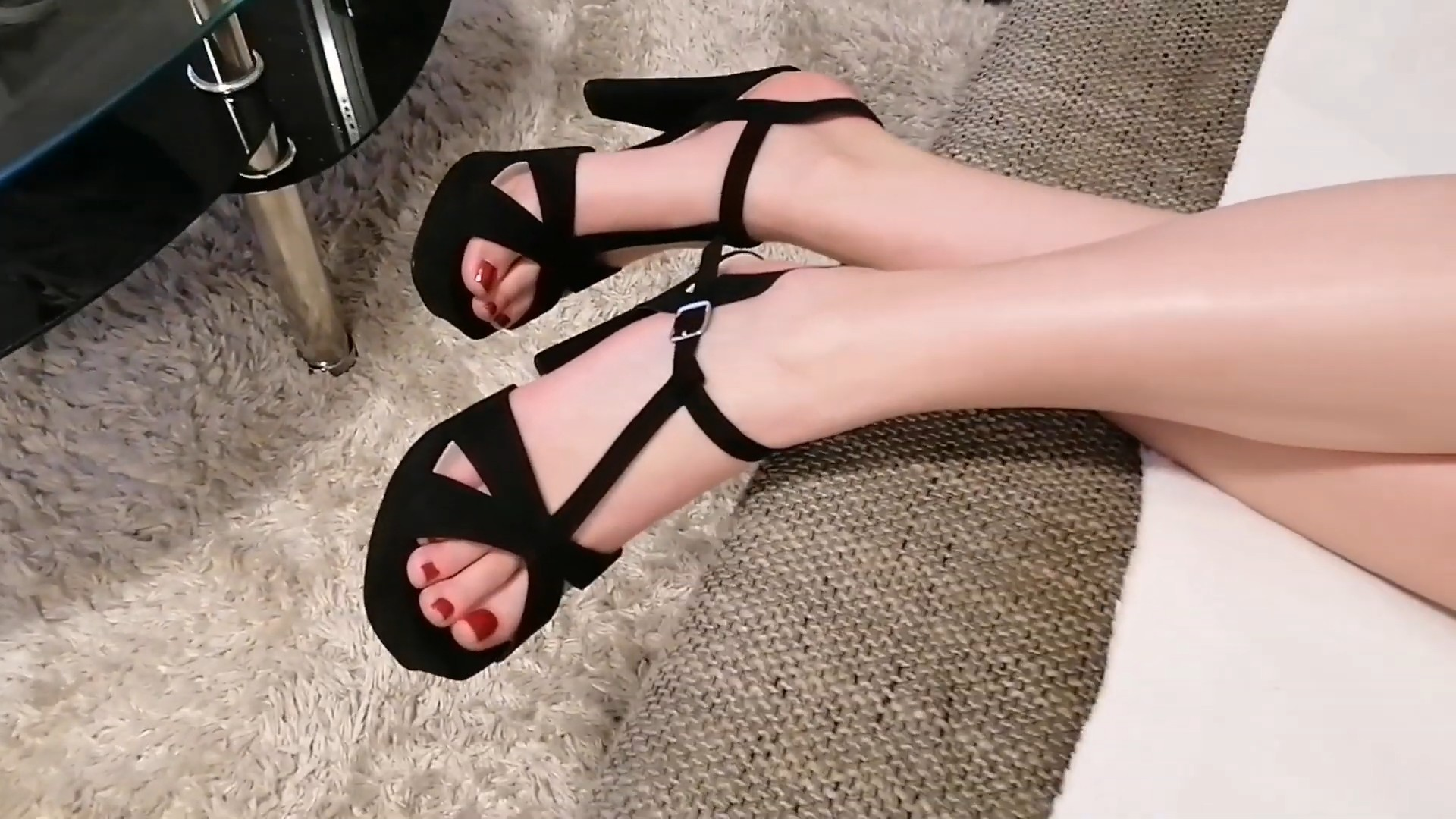 Black high-heeled shoes on female feet.